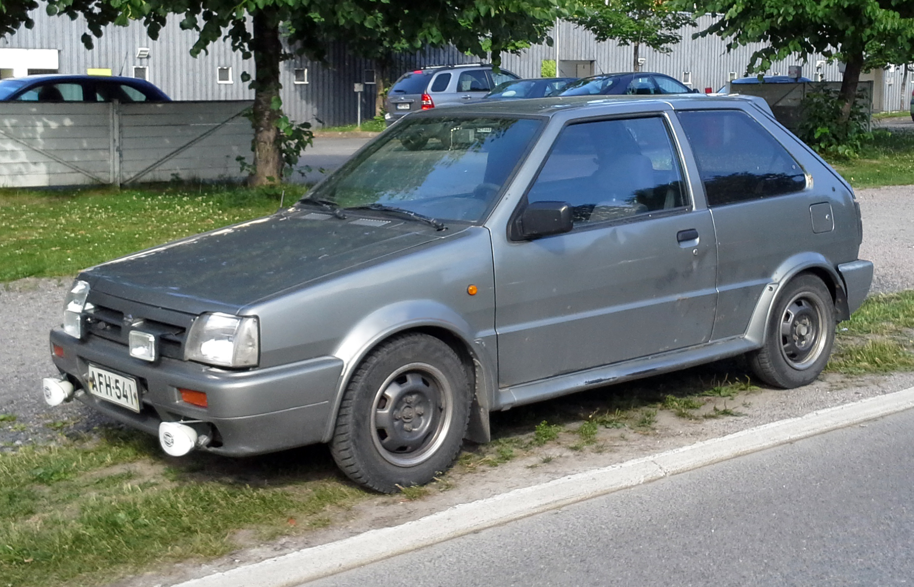 Relatively rare example of first generation (face-lift) Nissan Micra Super S (1989-1992).